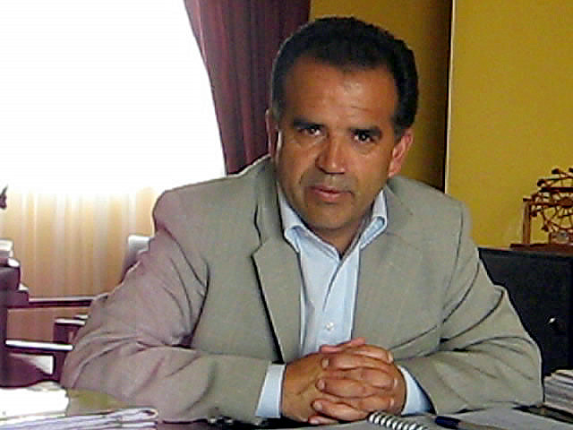 Roberto Córdova while being interviewed, in November 2010. Screenshot from an interview (own work, totally).